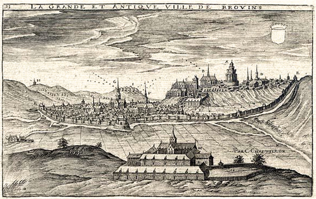 Vineyard of Provins Champagne XVIIIe